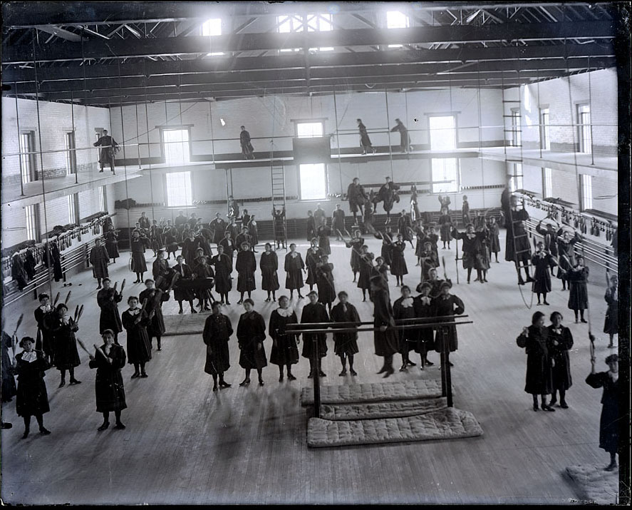 Group of Young Women Students in School Uniform at Gym Class; Some with Indian Clubs; Some on Parallel Bars, Others on Catwalk Above Gym Floor 1880